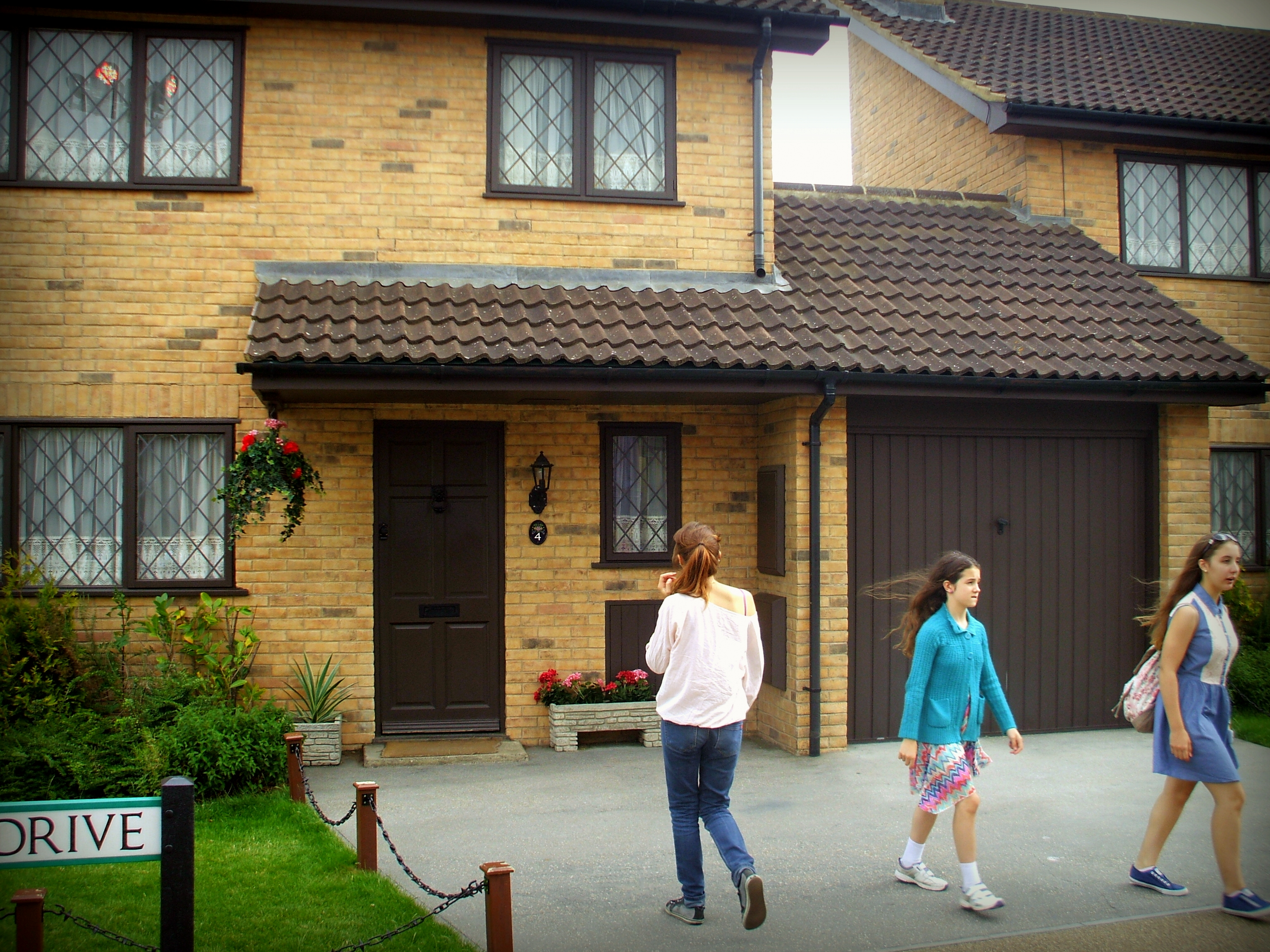 No. 4, Privet Drive, Little Whinging. Harry Potter's house set at Warner Bros. Studios, Leavesden, UK